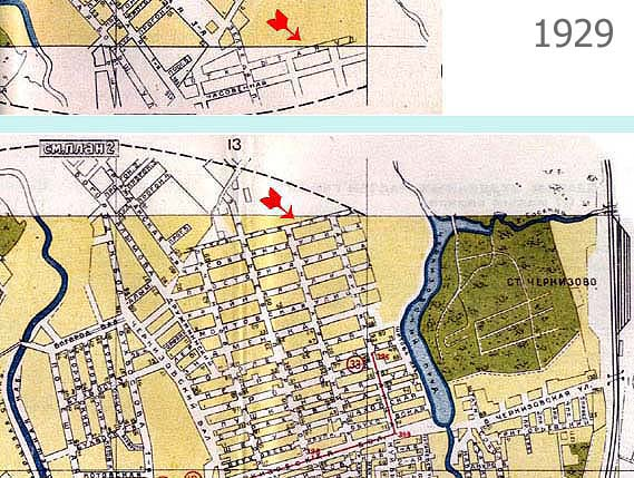 Map of Otkrytoe shosse in Moscow, 1929 year